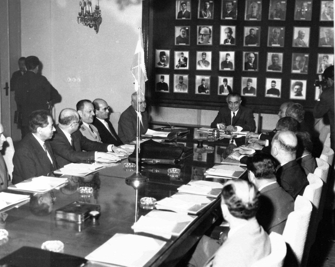 سیدصادق امیرعزیزی، در کابینه علی امینی (نفر چهارم از راست) ۱۳۴۰